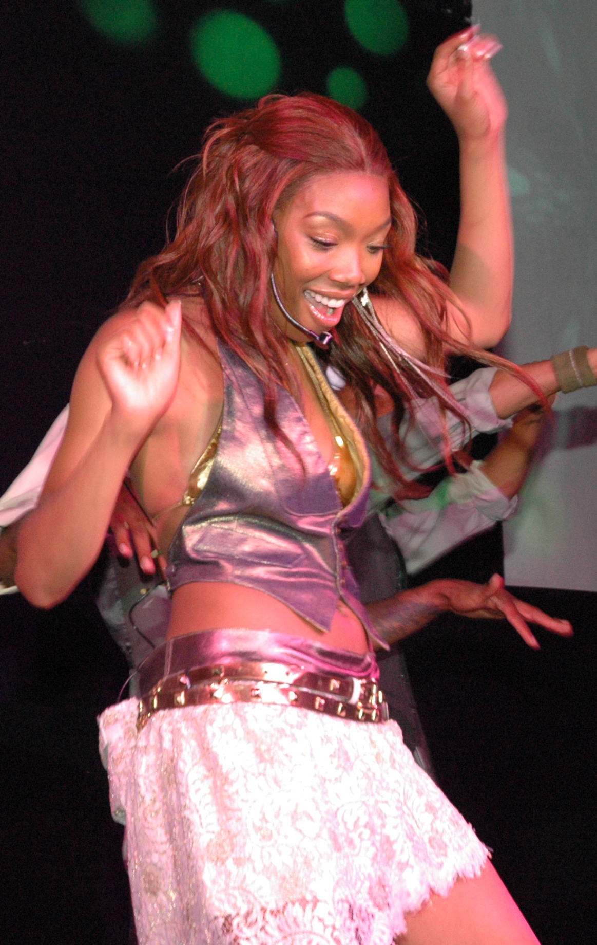 Brandy Norwood performing in a concert in July 2004.